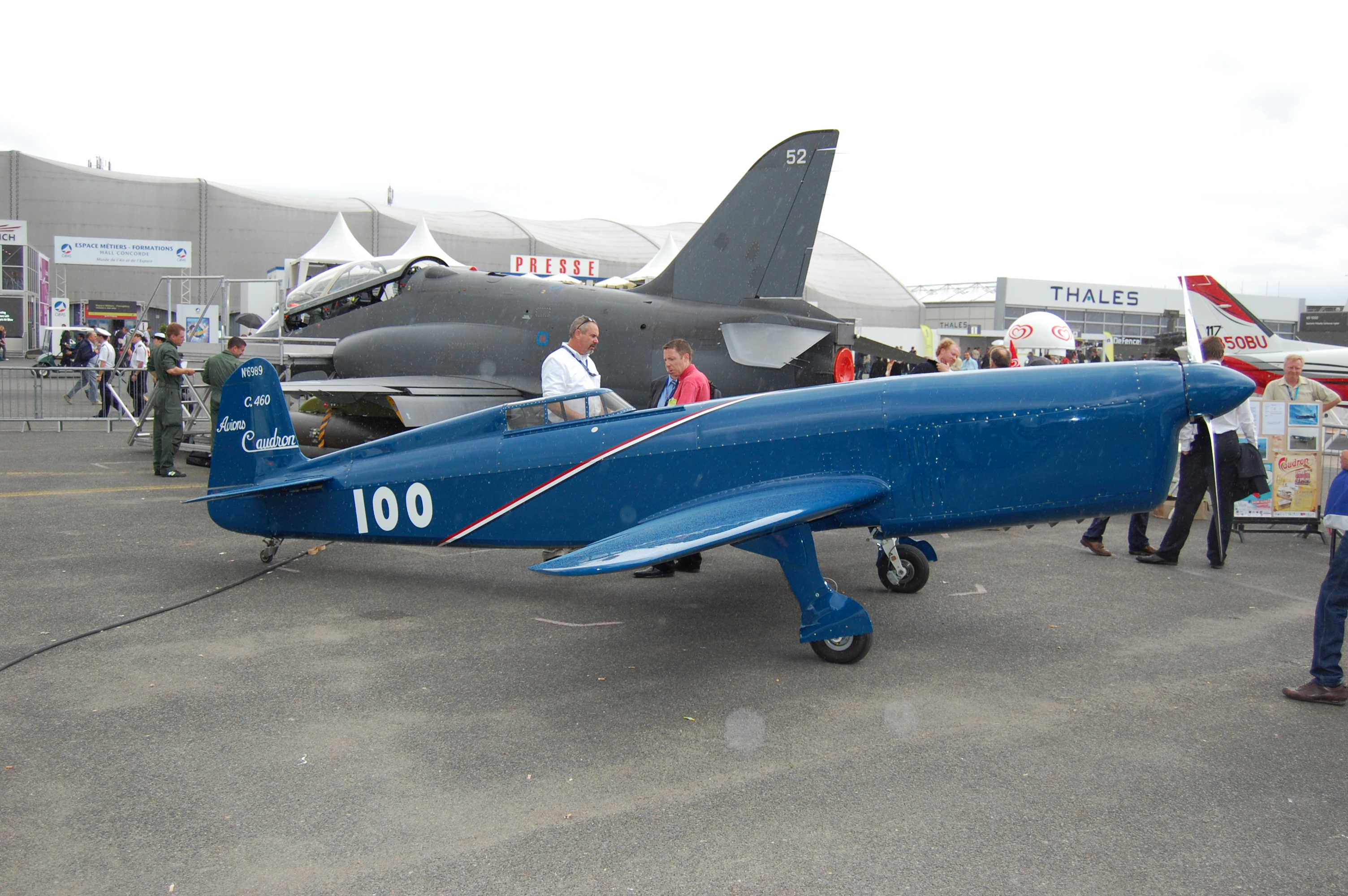 Caudron 460 at Le Bourget exhibition 2009